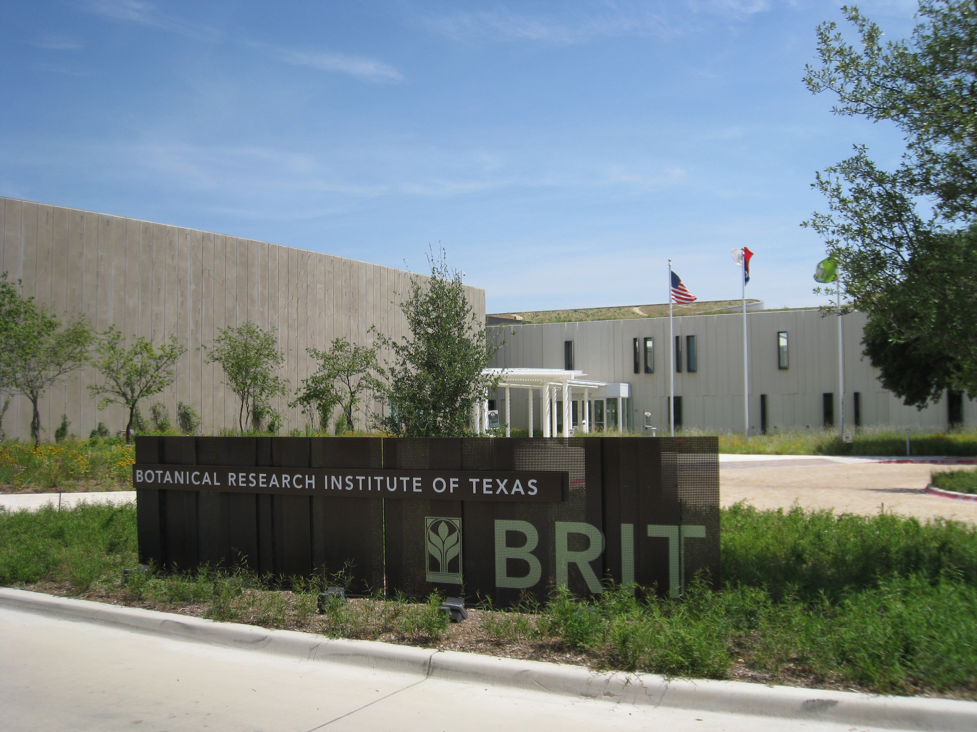 The two main buildings of the Botanical Research Institute, located in Fort Worth Texas. The herbarium and library are in the large grey part on the left. Classrooms and meeting rooms are on the right.